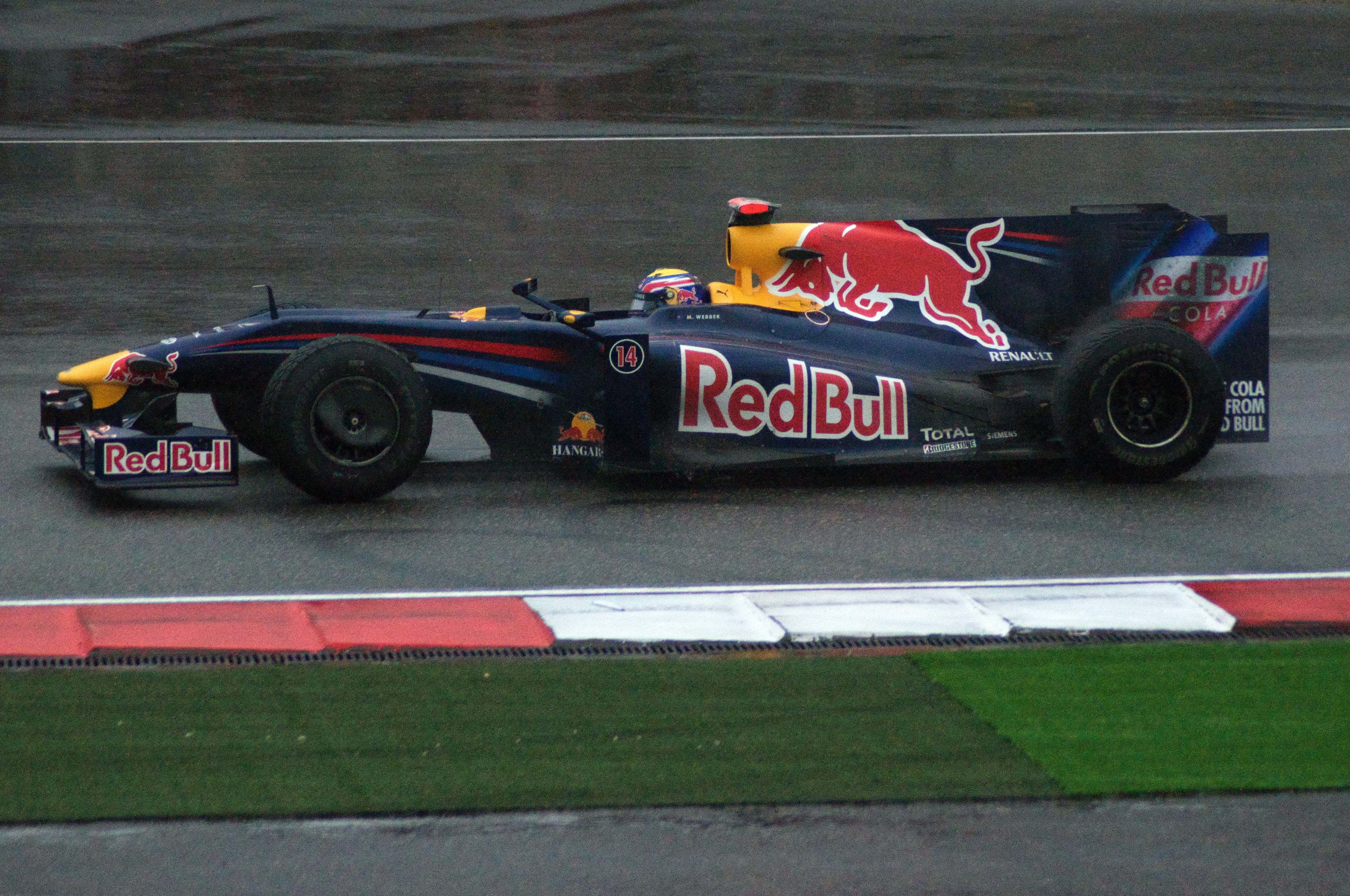 Mark Webber driving for Red Bull Racing at the 2009 Chinese Grand Prix.